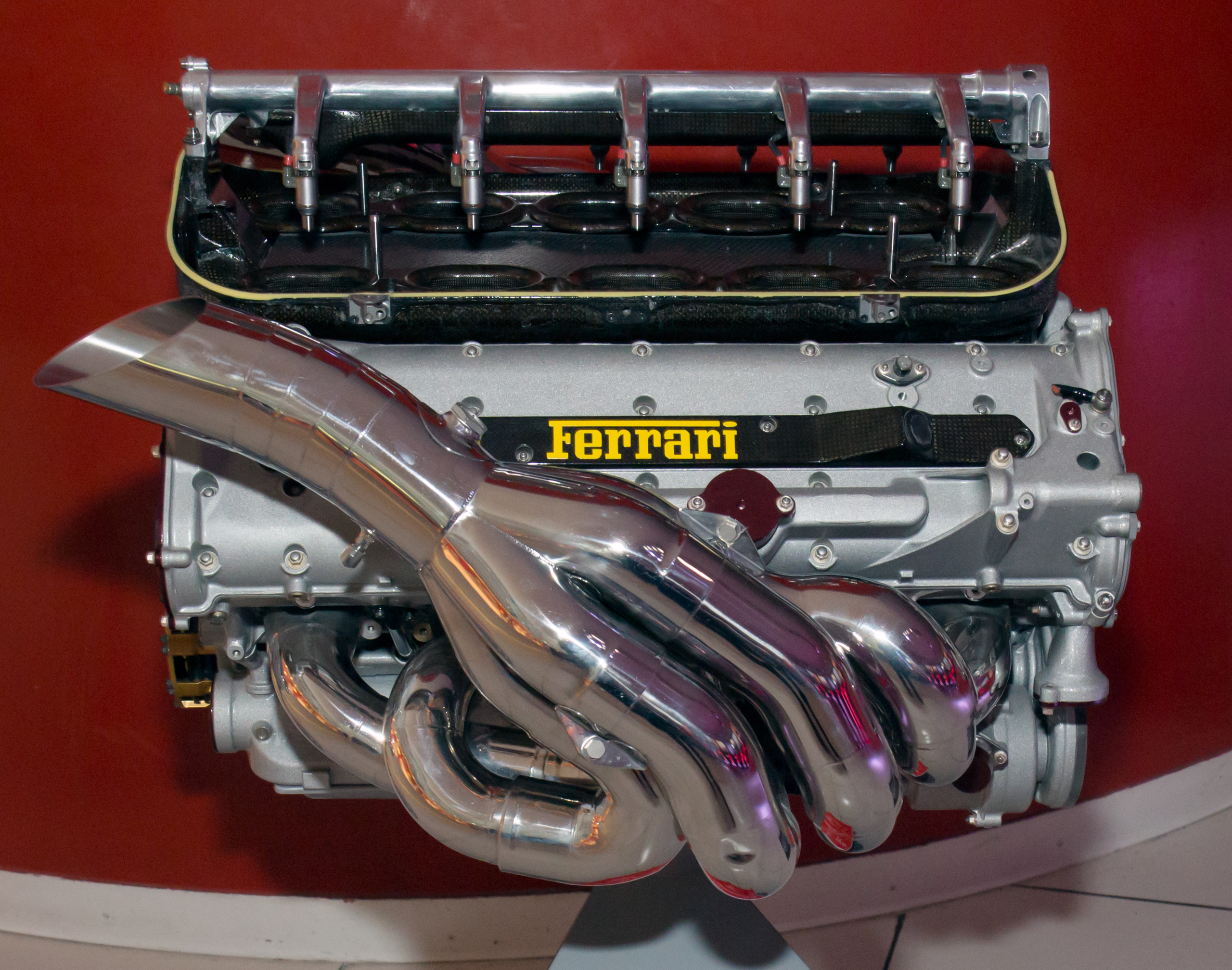 Ferrari Tipo 049 engine (2000) of the Ferrari F1-2000